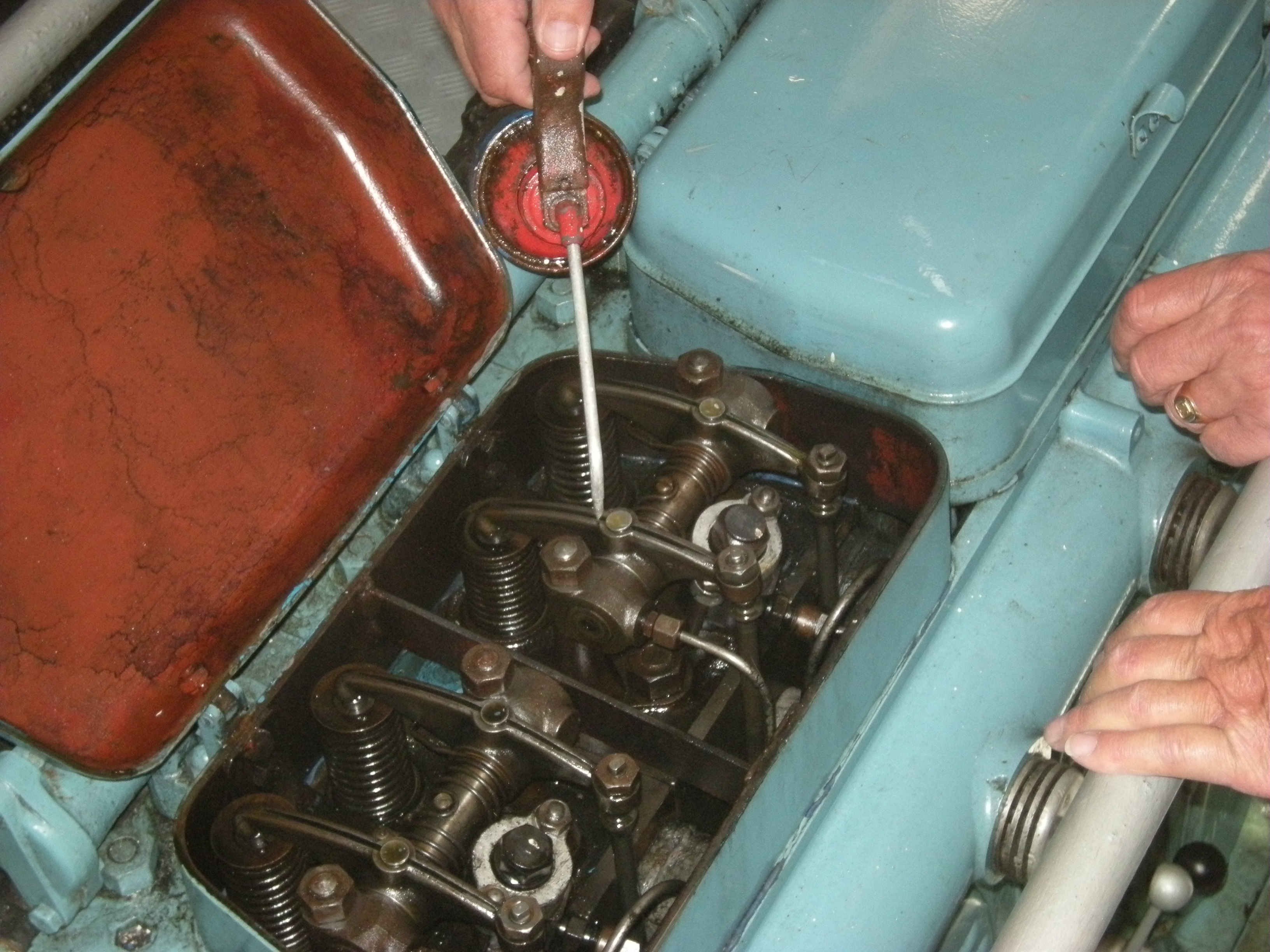 Baudouin DK6 marine engine lubrication of La Horaine motor boat